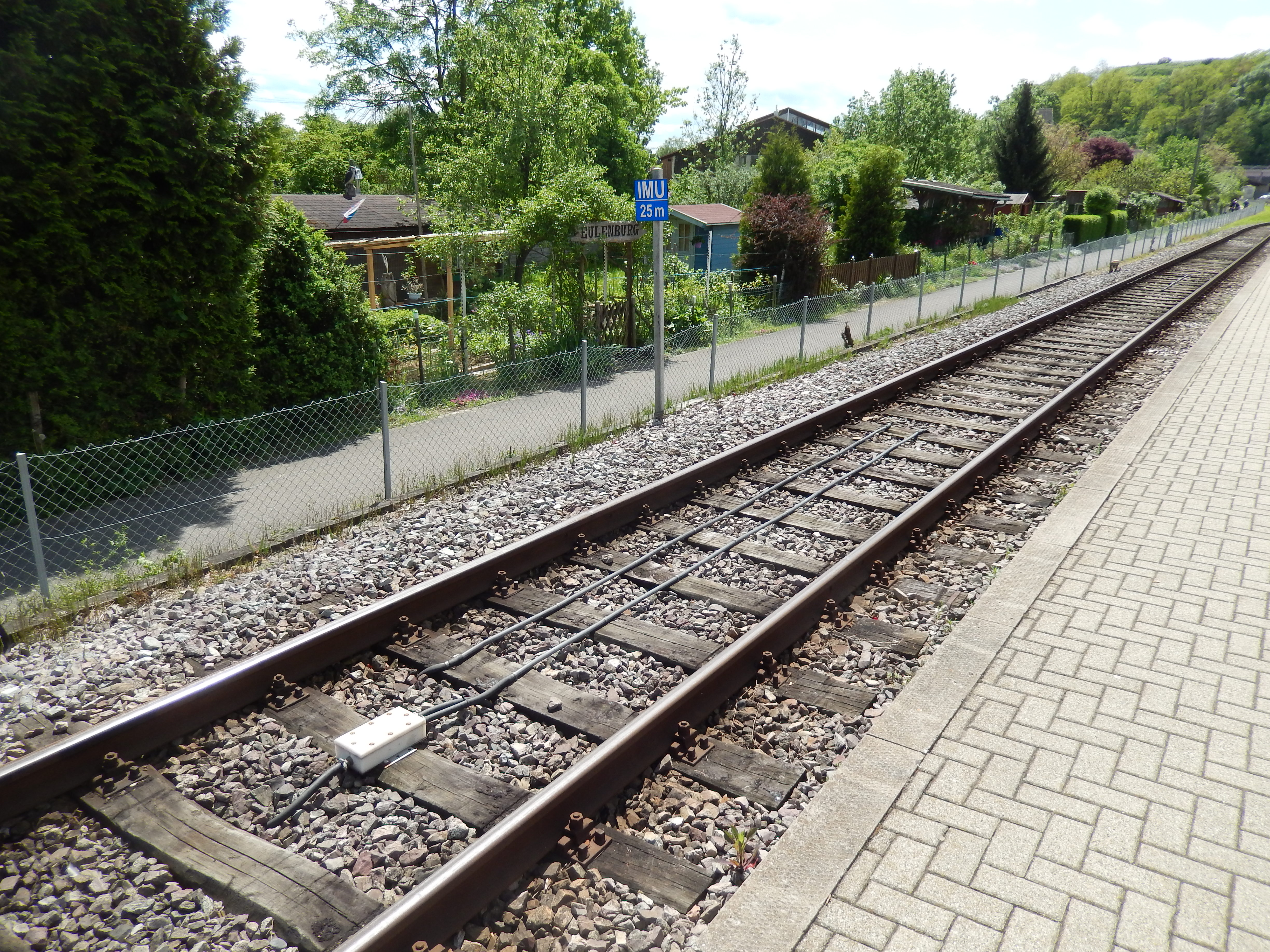 Railway sign in Eichstetten, Germany.